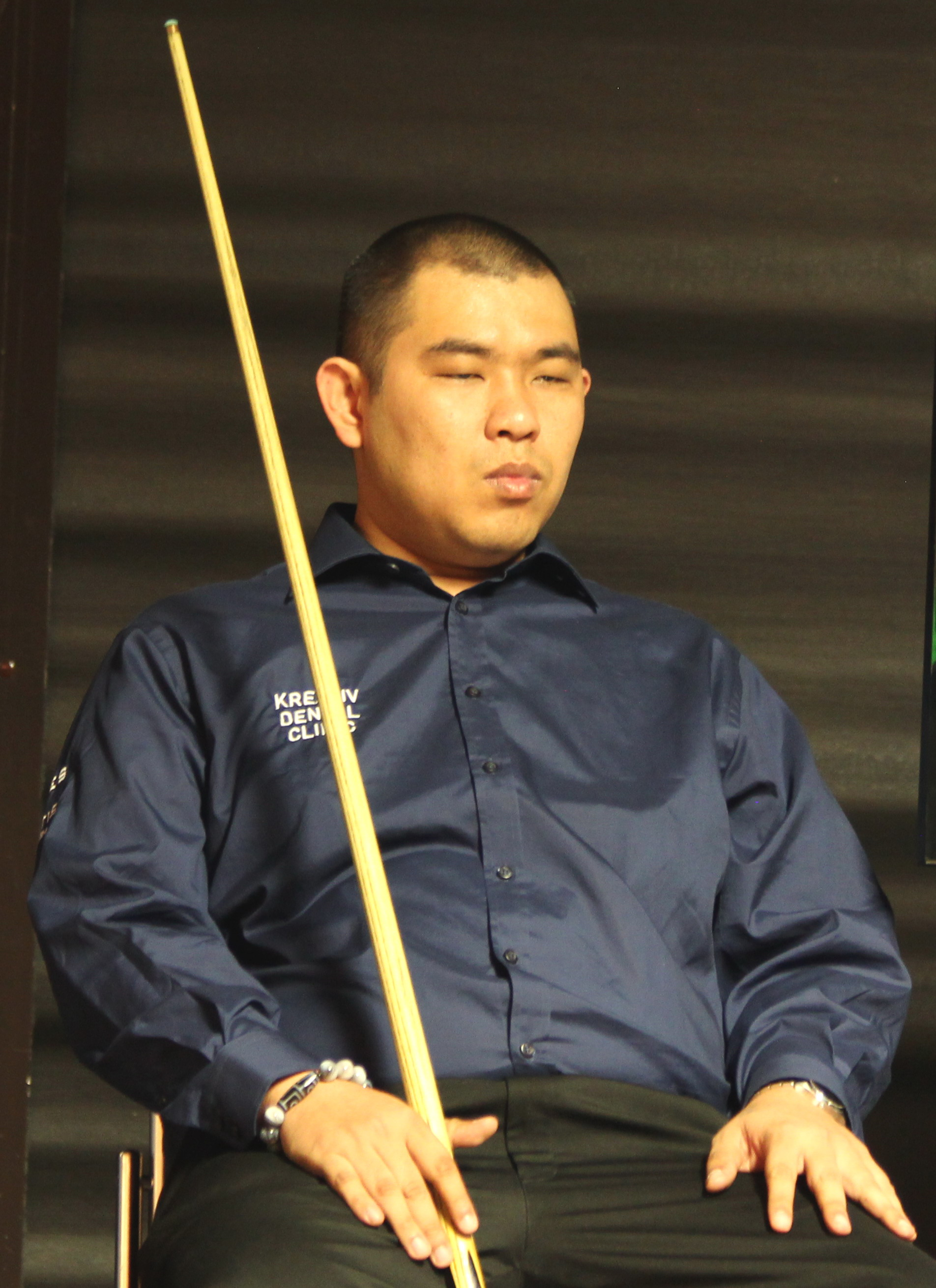 Thor Chuan Leong beim Paul Hunter Classic 2015